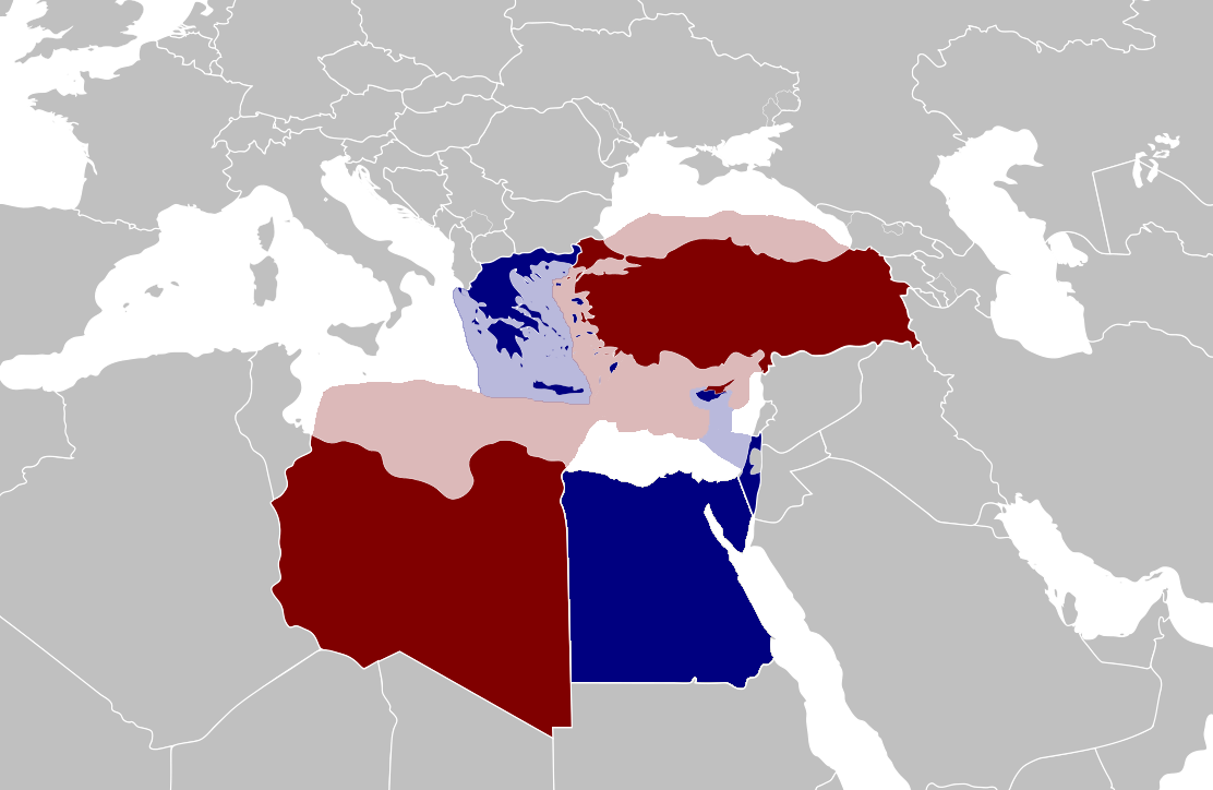 EastMed pipeline in blue and opposers in red